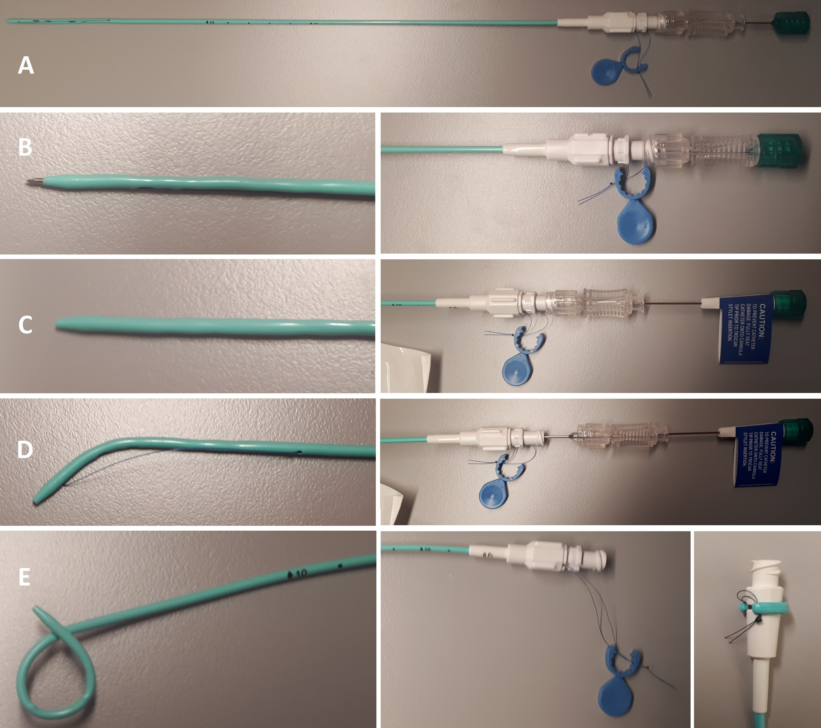 Various settings of a 6 French pigtail catheter with locking string, obturator (also called stiffening cannula) and puncture needle. A. Overview B. Both puncture needle and obturator engaged, allowing for direct insertion. C. Puncture needle retracted. Obturator engaged. Used for example in steady advancement of the catheter on a guidewire.D. Both obturator and puncture needle retracted, when the catheter is in place. E. Locking string is pulled (bottom center) and then wrapped and attach to the superficial end of the catheter.